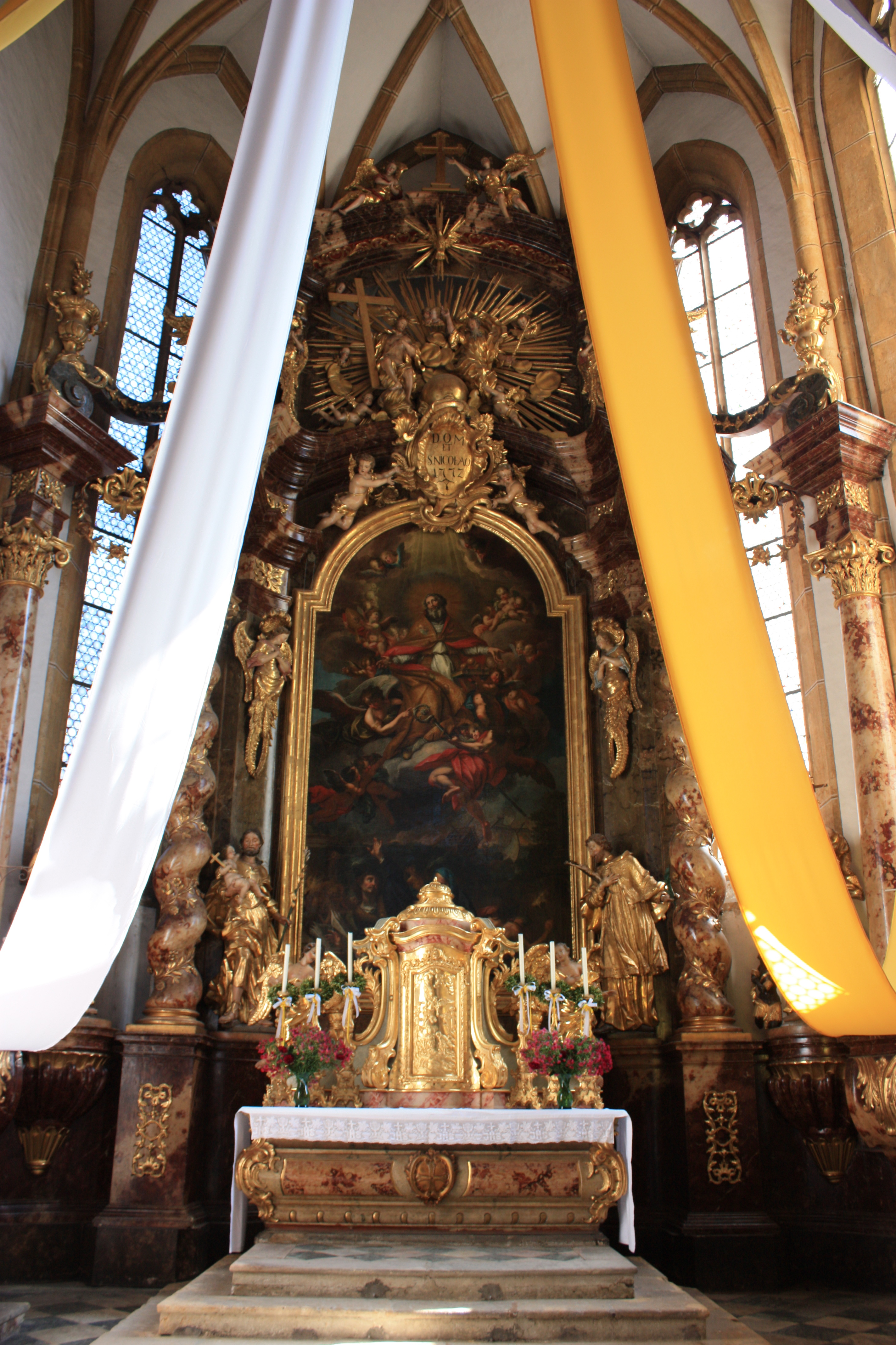 Parish church Saint Niklaus - Main altar Locality:Straßburg Community:Straßburg